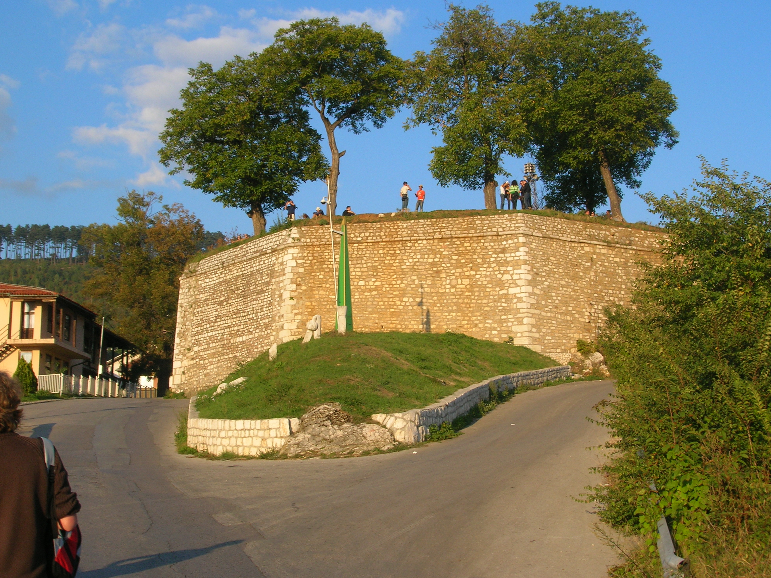 The ruins of the fortress, from which the scenic photos were taken.